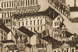 Detail of an 1886 map of Knoxville, Tennessee, USA, showing the Lamar House, with Gay Street on the right. The hotel consists of the gabled-roof section facing Gay Street (this is the original 1817 building, which still stands), an ell wing connected to the main building which overlooks Cumberland Street (replaced by the rear theater wing in 1909), and a kitchen wing, creating a half-rectangle around an open courtyard. Cropped from map entitled, "Knoxville, Tennessee, County Seat of Knox County."